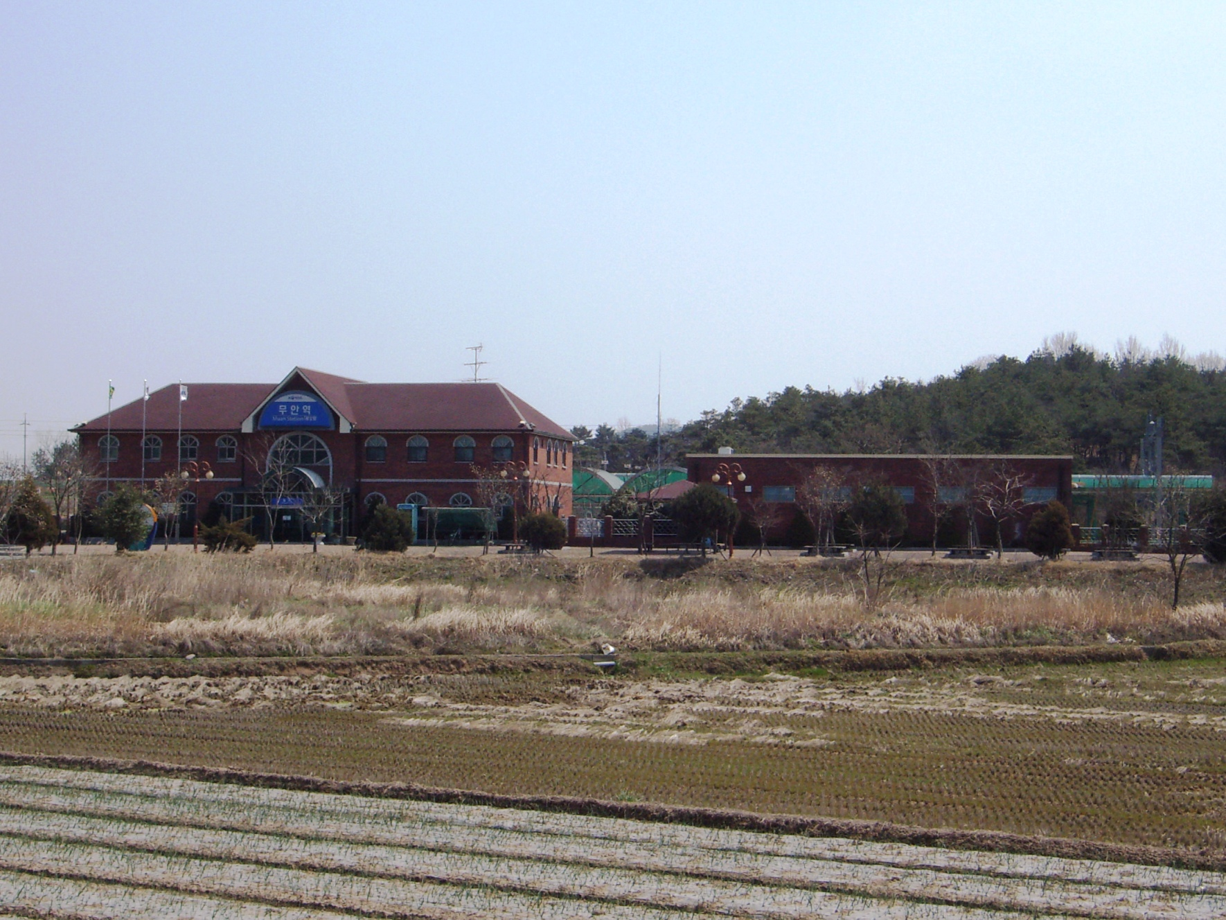 Muan Station